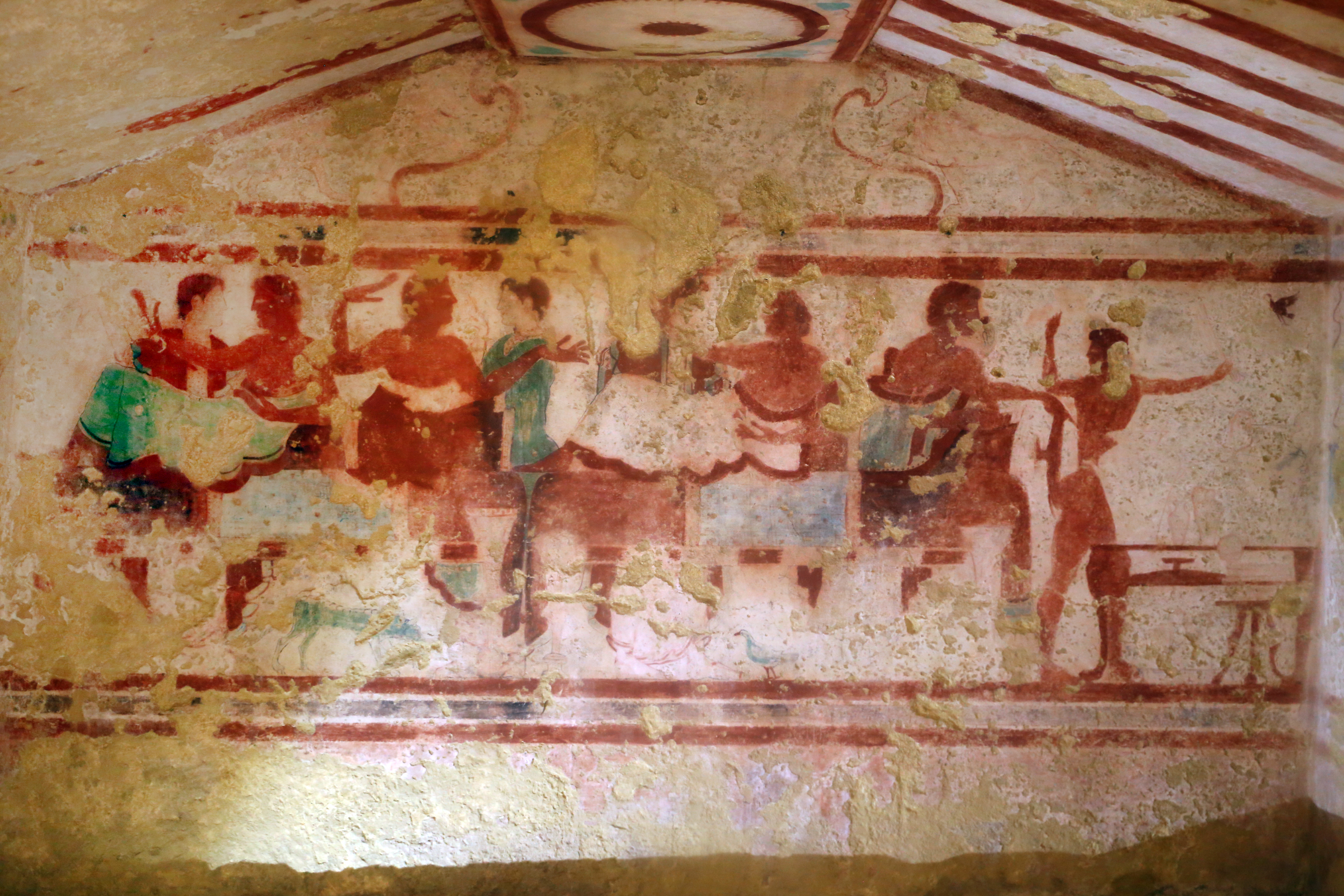 Necropoli dei Monterozzi (Tarquinia)